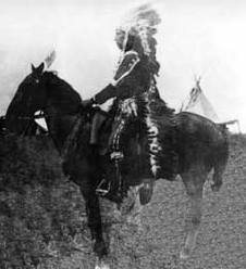 Hiram Chase, Omaha Tribal Historical Research Project Archives Other information No.